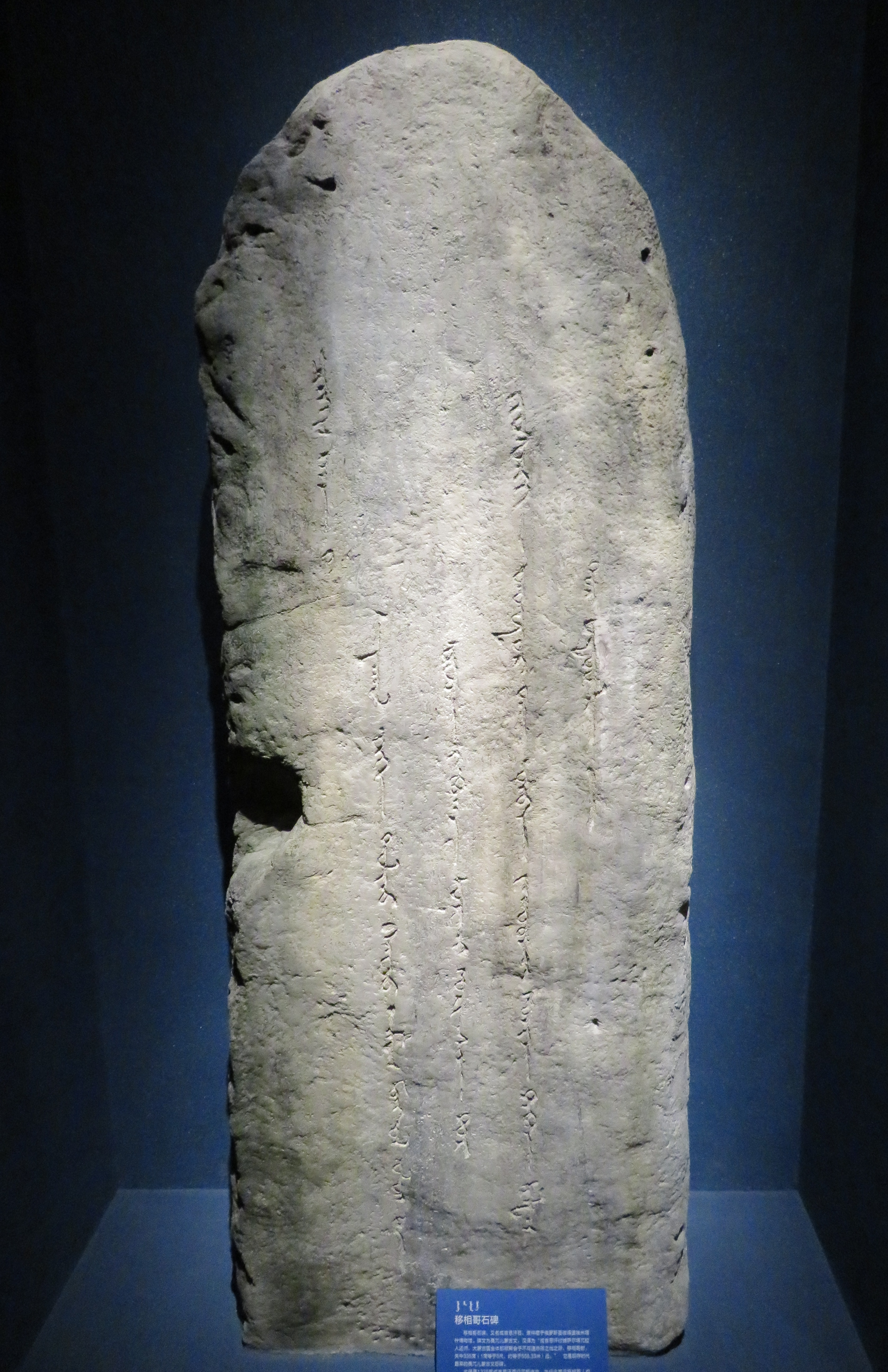 Stele of Yisüngge (copy of the original stele held at the Hermitage Museum in Russia). This is the earliest known inscription in the Mongolian script, and commemorates Yisüngge (possibly a nephew of Genghis Khan) shooting an arrow a distance of 335 spans (c. 580 yards), probably in 1225. Mongol empire.